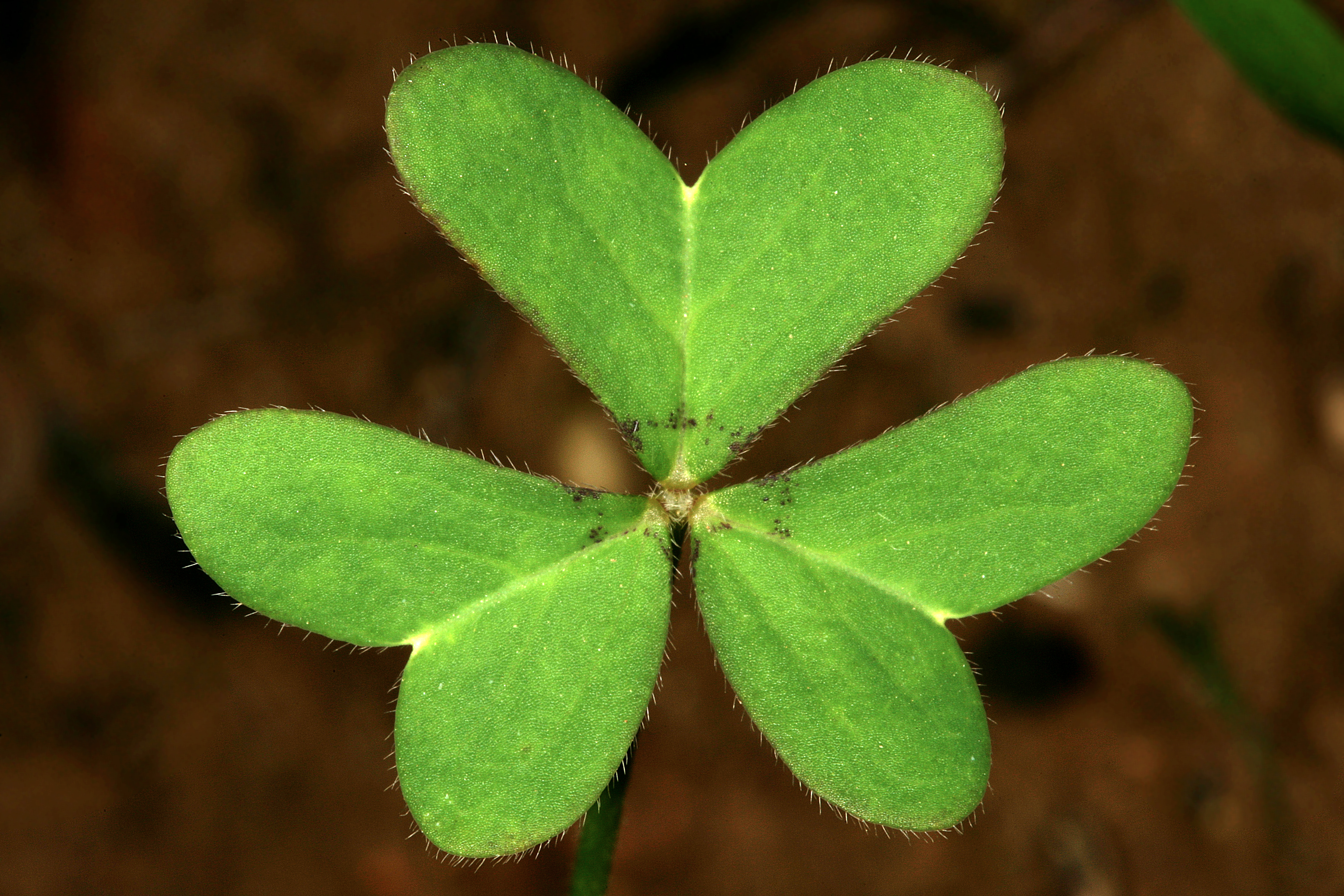 Oxalis pes-caprae, leaf; Paarlberg Nature Reserve, Paarl, Western Cape, South Africa